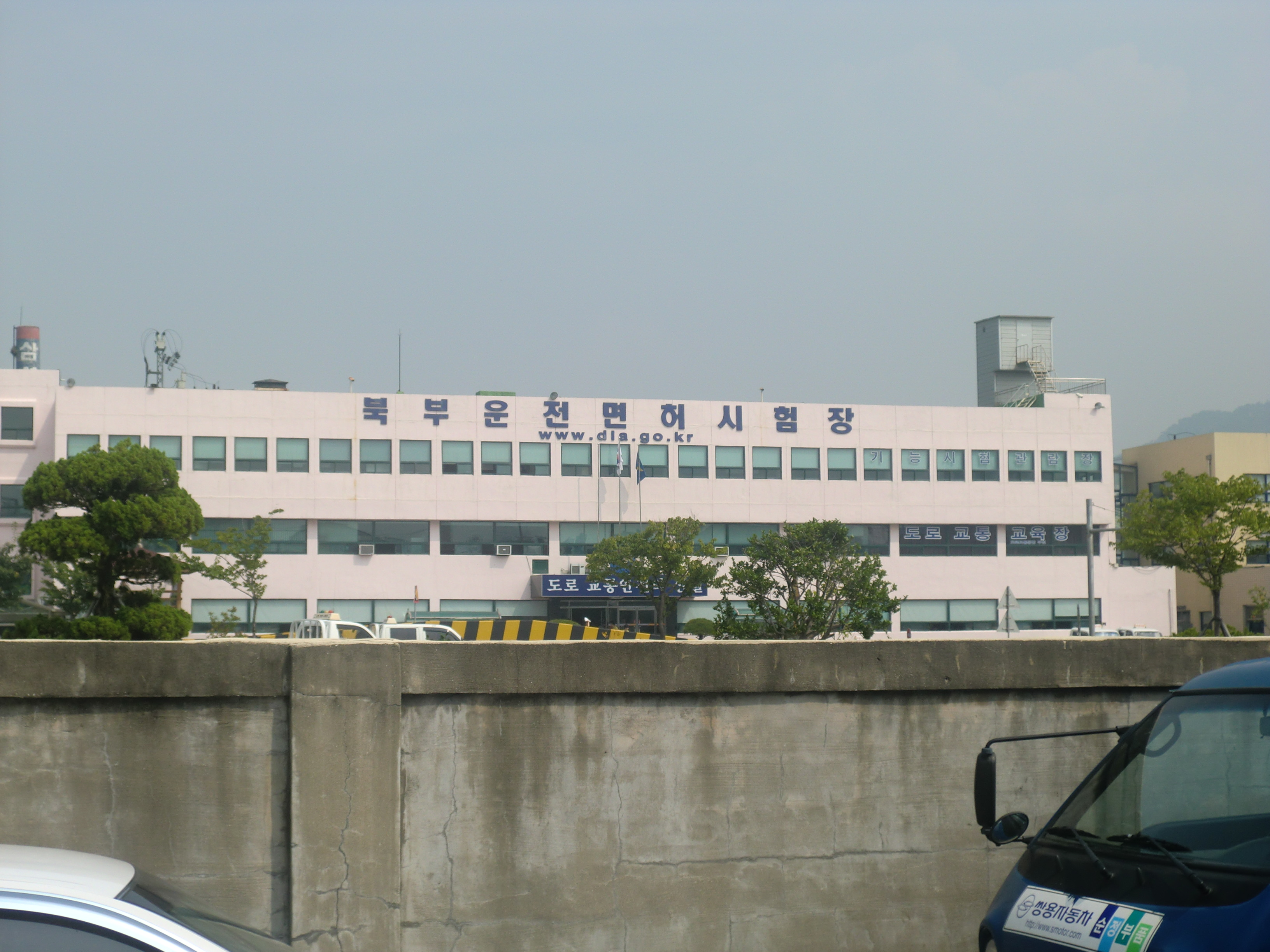 Busan north driver's license examination office